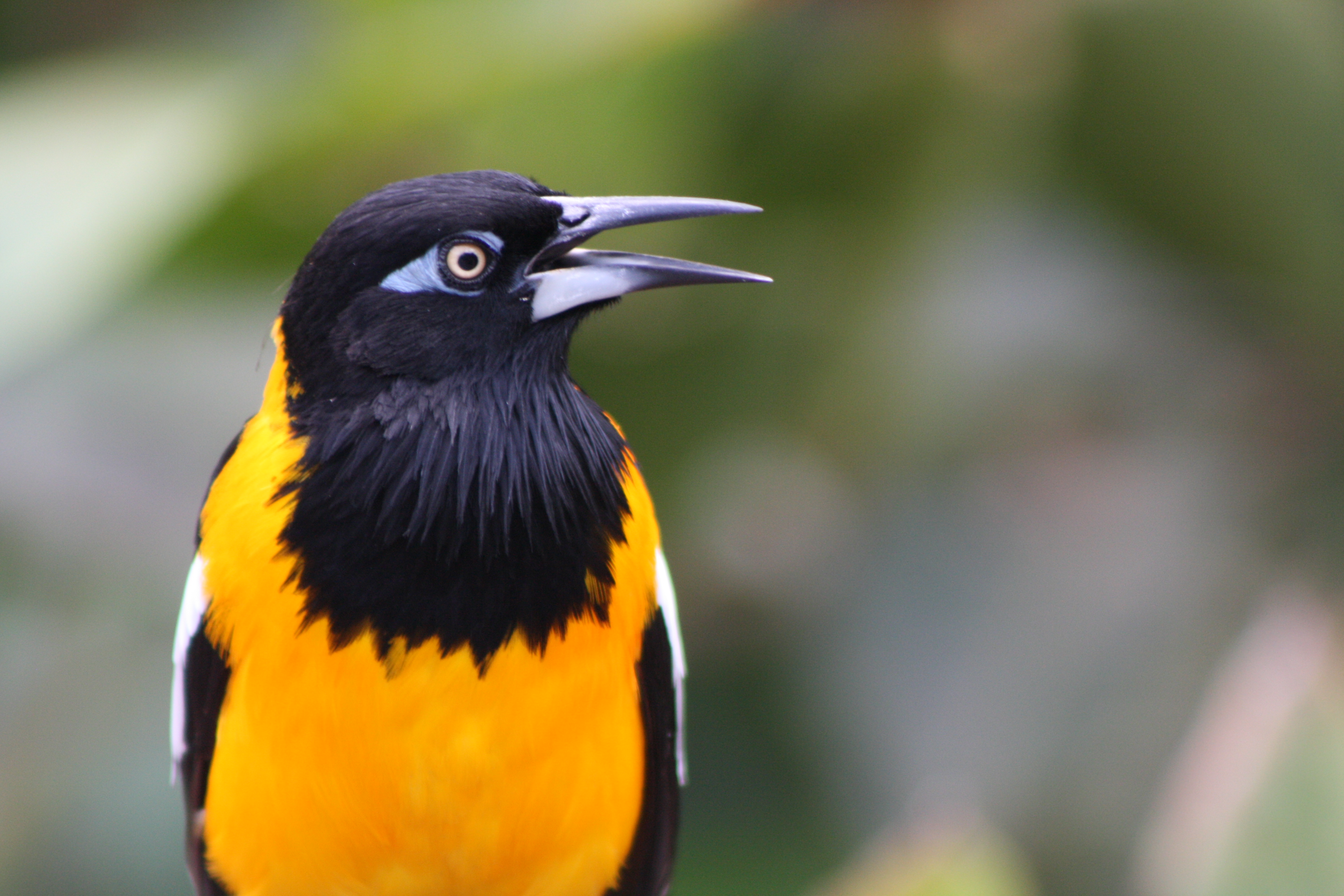 Puerto Rican Troupial, Icterus icterus, also known as Venezuelan Troupial, at the Mayaguez zoo aviary in Puerto Rico; Troupials are related to orioles and blackbirds